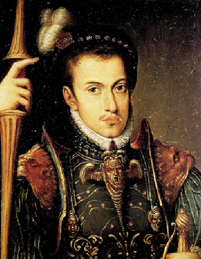 King Sebastian of Portugal, at age 18 (1572). Unknown painter.